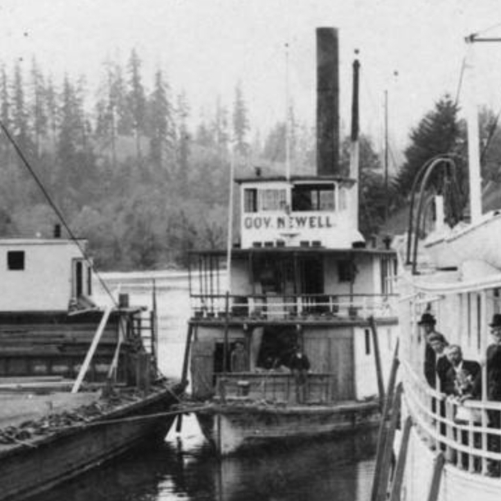 Steamer Gov. Newell at center of image, scow on left, steamer Mascot on right.